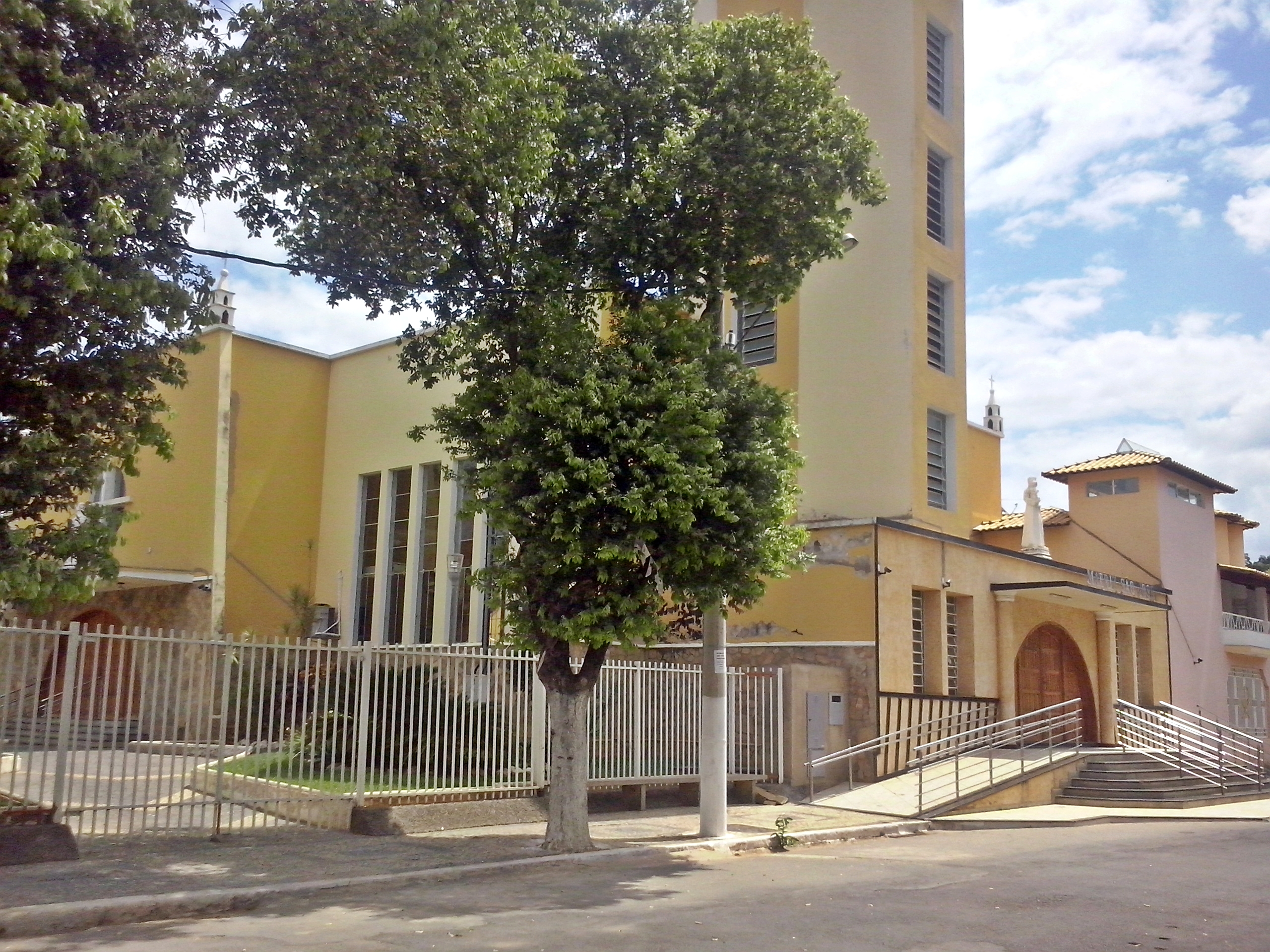 View of the Saint Joseph Mother Church, in Conselheiro Pena, Minas Gerais, Brazil.